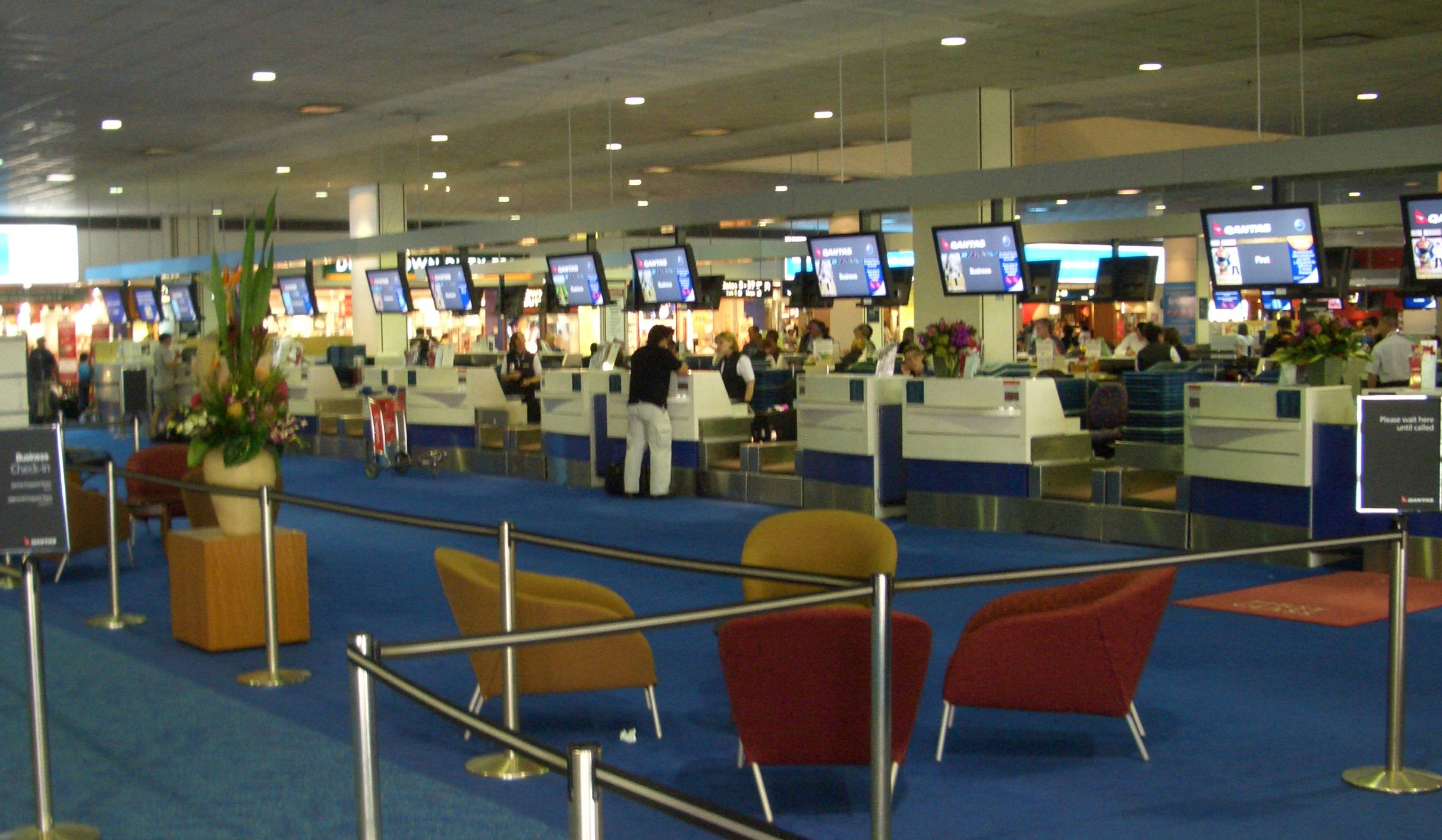 Sydney International Airport Terminal